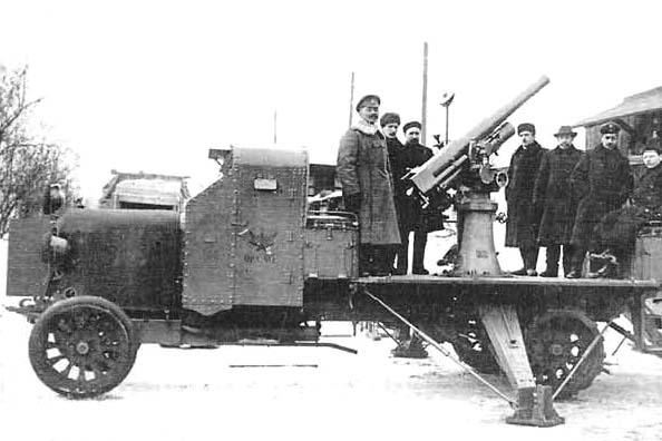 Anti-aircraft armored car «Russo-Balt type T» during the tests.